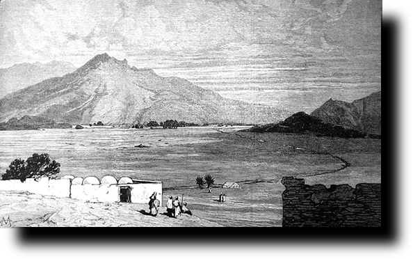 "Panorama of the Maiwand battlefield. From a sketch by Captain JR Slade RHA"